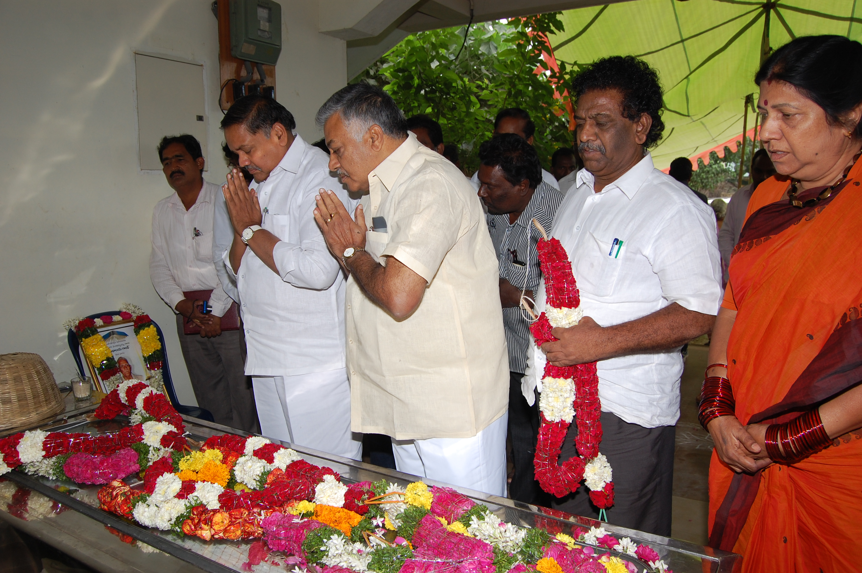 Paying Homage